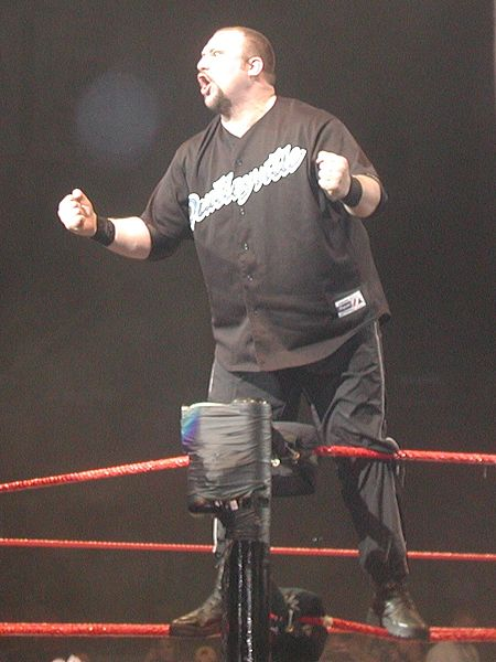 Bubba Ray Dudley at a WWE Raw live event. Allstate Arena, Rosemont, Illinois, September 1 en:2002.